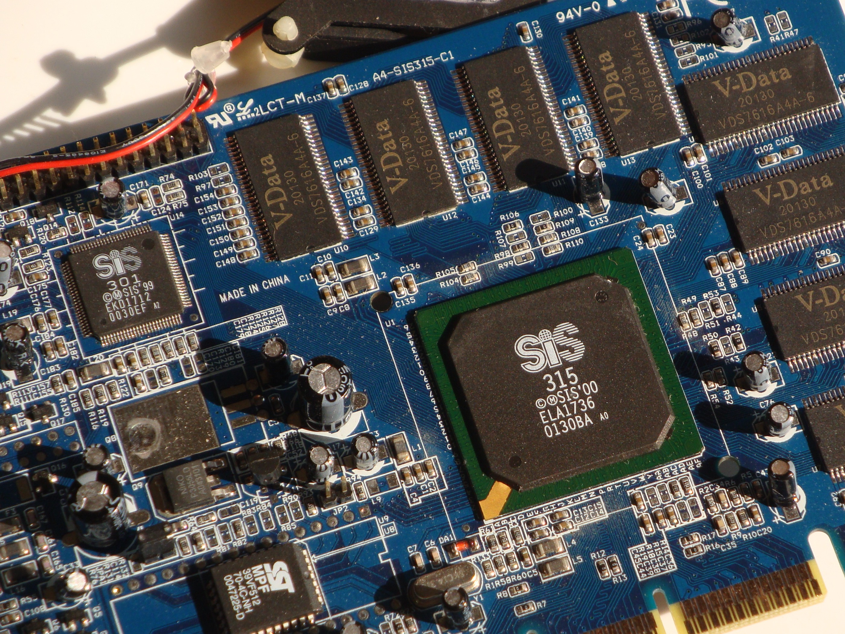 SiS 315 GPU with SiS 301.